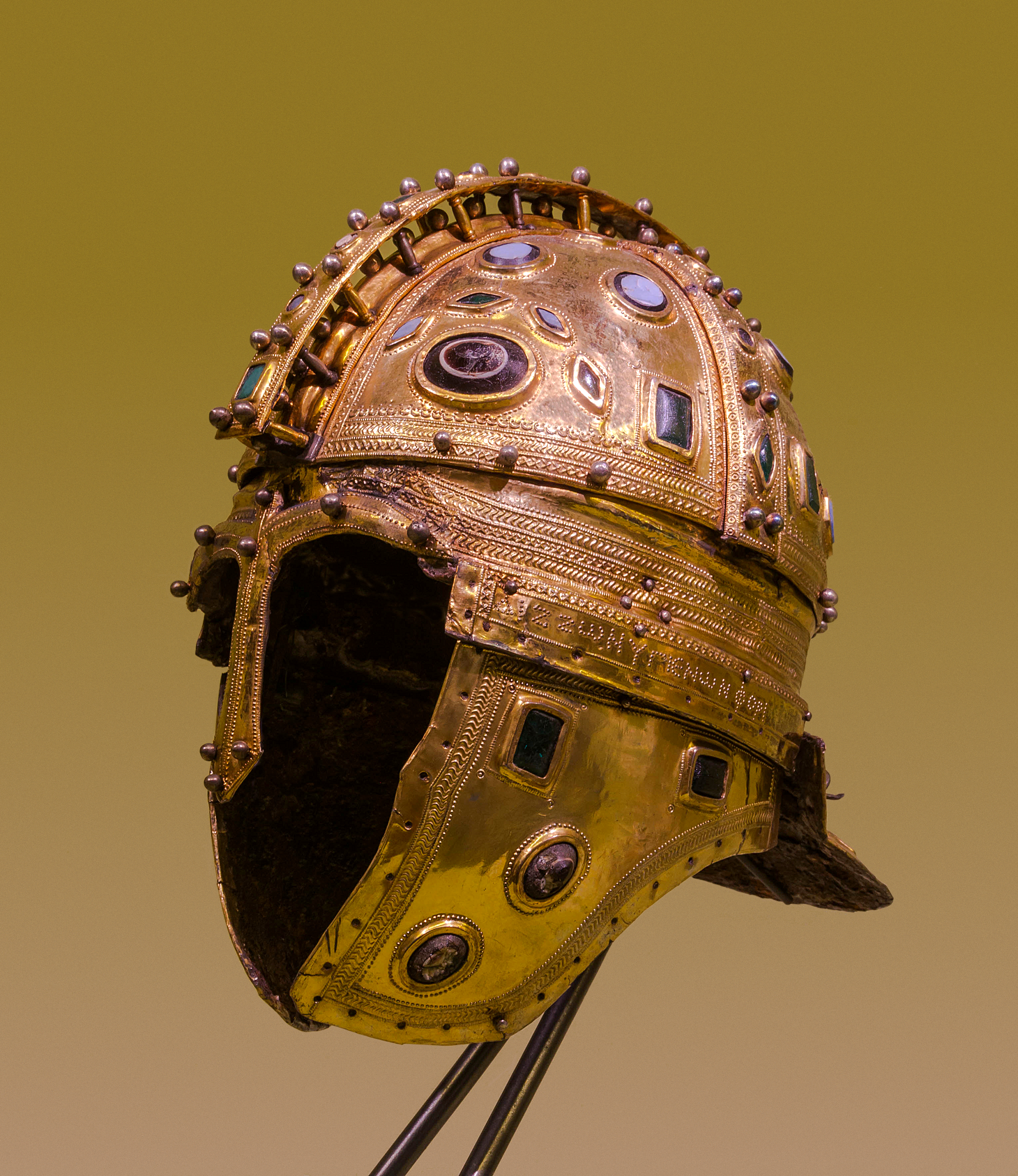 Roman jewelled ridge helmet, first twenty years of the 4th century CE, iron, gilded silver leaf, glass, gems. From the "Berkasovo treasure", Muzej Vojvodine, Novi Sad (Serbia). On display at temporary exhibition in the Colosseum (aug 2013), Rome, Italy. Museum of Vojvodina Native nameМузеј ВојводинеLocationNovi SadCoordinates45° 15′ 23.57″ N, 19° 51′ 06.32″ E Established14 October 1847 Web page control : Q6941048 VIAF: 231993869 LCCN: n2012009683 GND: 4283993-2 WorldCat institution QS:P195,Q6941048